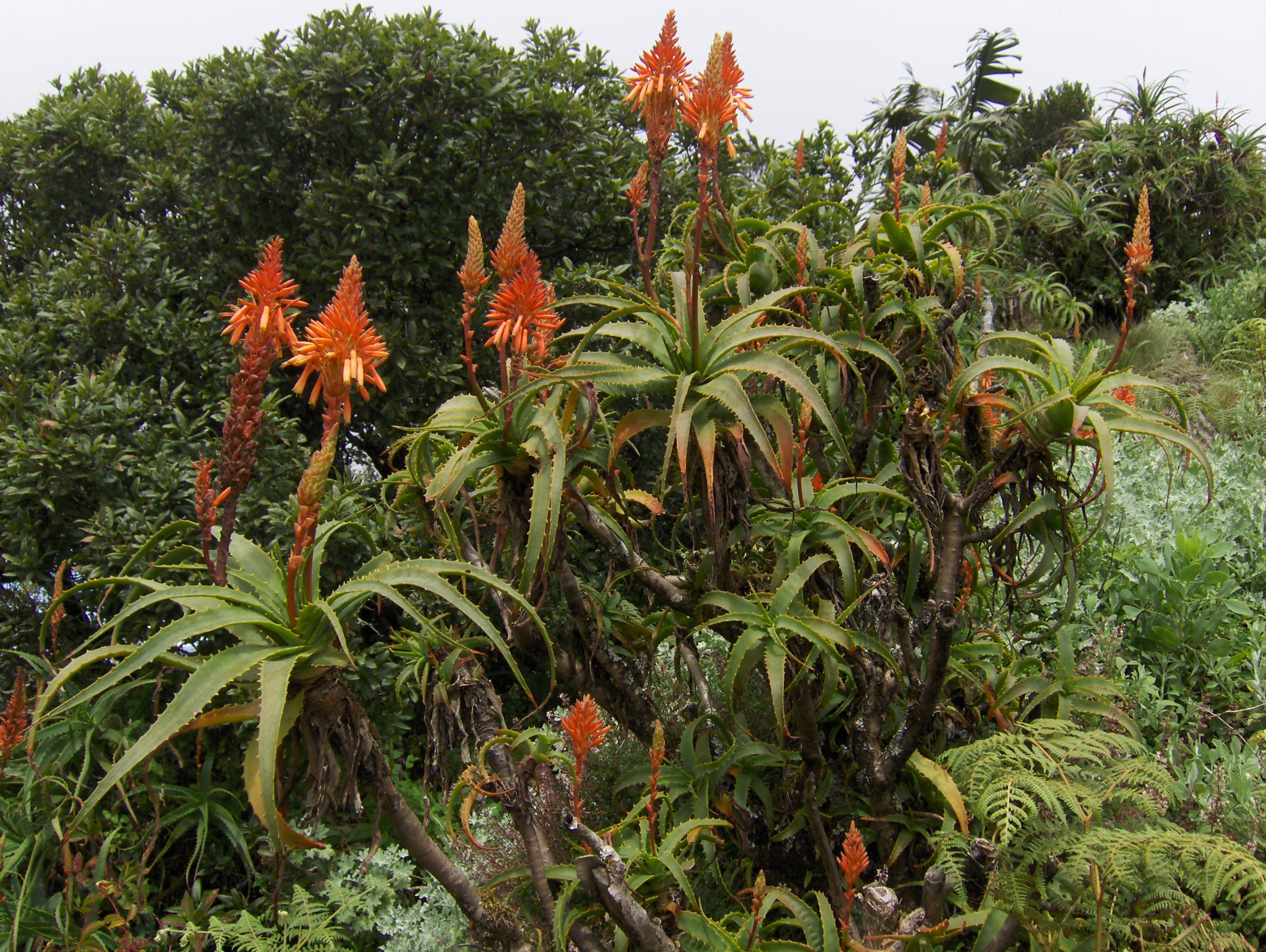 Here on Mount Gorongosa in Central Mozambique, 1700 m.a.s. Many important medicinal uses (internal use: whole leaves, mixed with honey and a bit of alcohol): controlling hypertension, to reduce side effects of chemotherapy in cancer treatment, anti-inflammatory, pain-killer in many different conditions. Local population in Mozambique uses the pounded leaves (mixed with drinking water) to treat (and prevent) many serious chicken diseases.